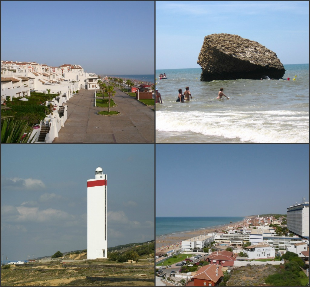 A collage of the spanish city "Matalascañas"